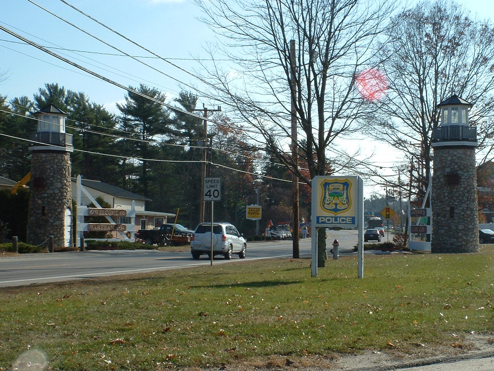 The "Gateway to Cape Cod" lighthouses along Route 28 in front of the Police Station and Taylor Rental in Wareham, Massachusetts.